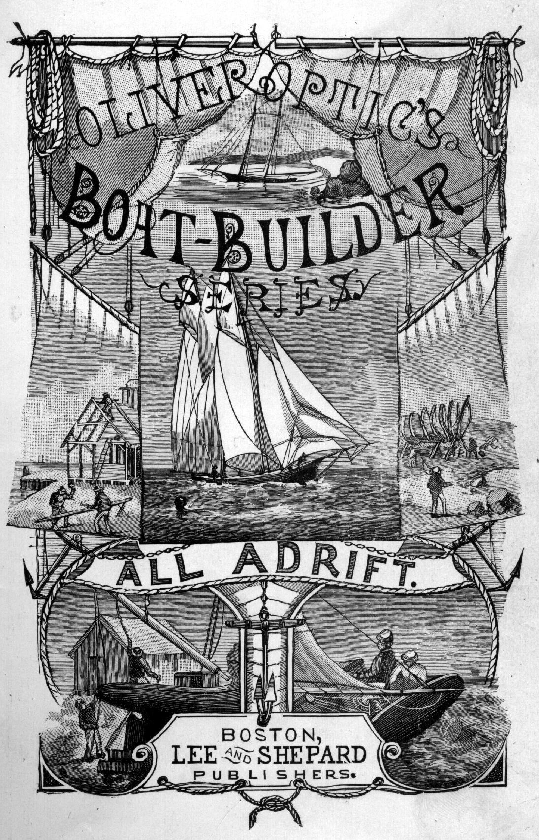 Cover page of All Adrift, or The Goldwing Club by Oliver Optic (William Taylor Adams). Lee and Shepard Publishers, Boston, 1892.